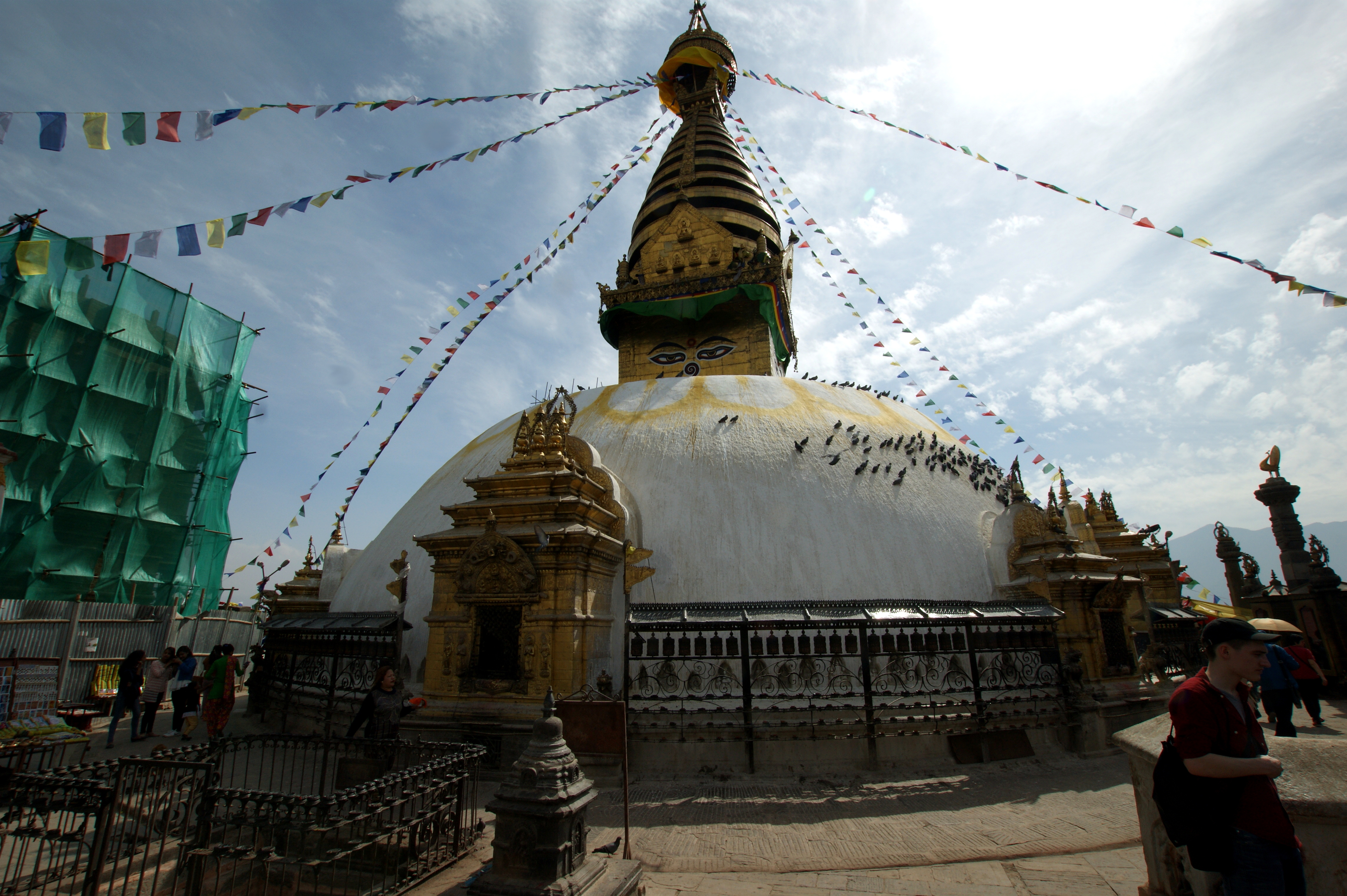 Swayambhunath main stupa